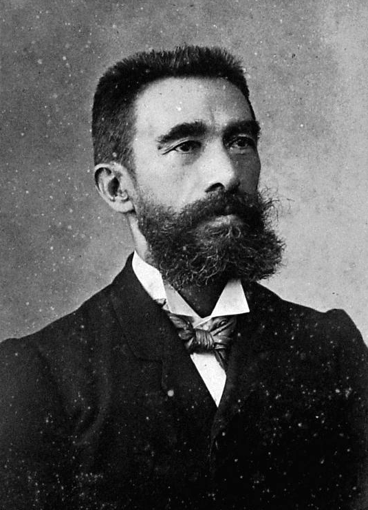 Portrait of Luis Cruls (LC.F.0009) (Cropped & enhanced by uploader from